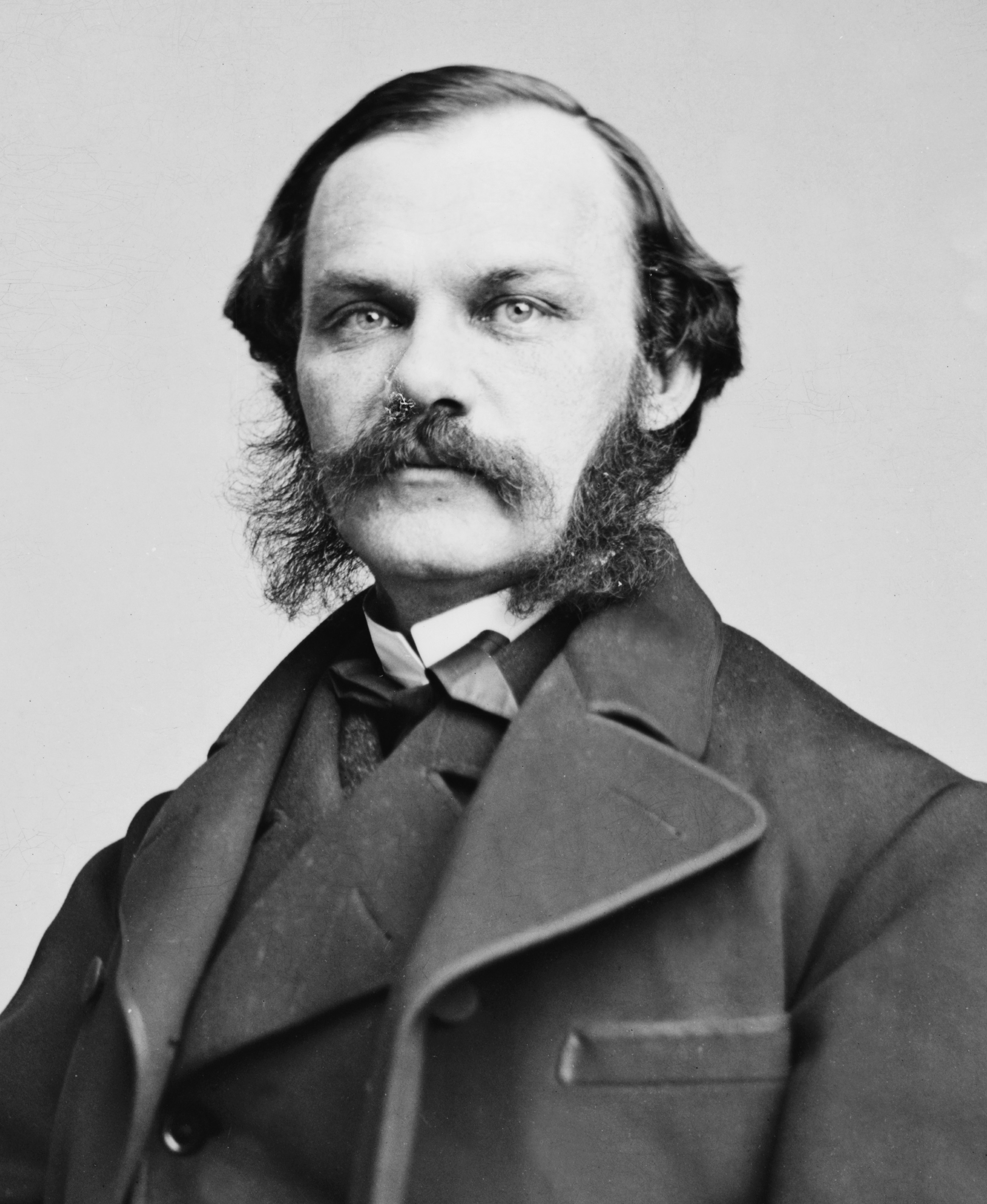 Henry Jarvis Raymond